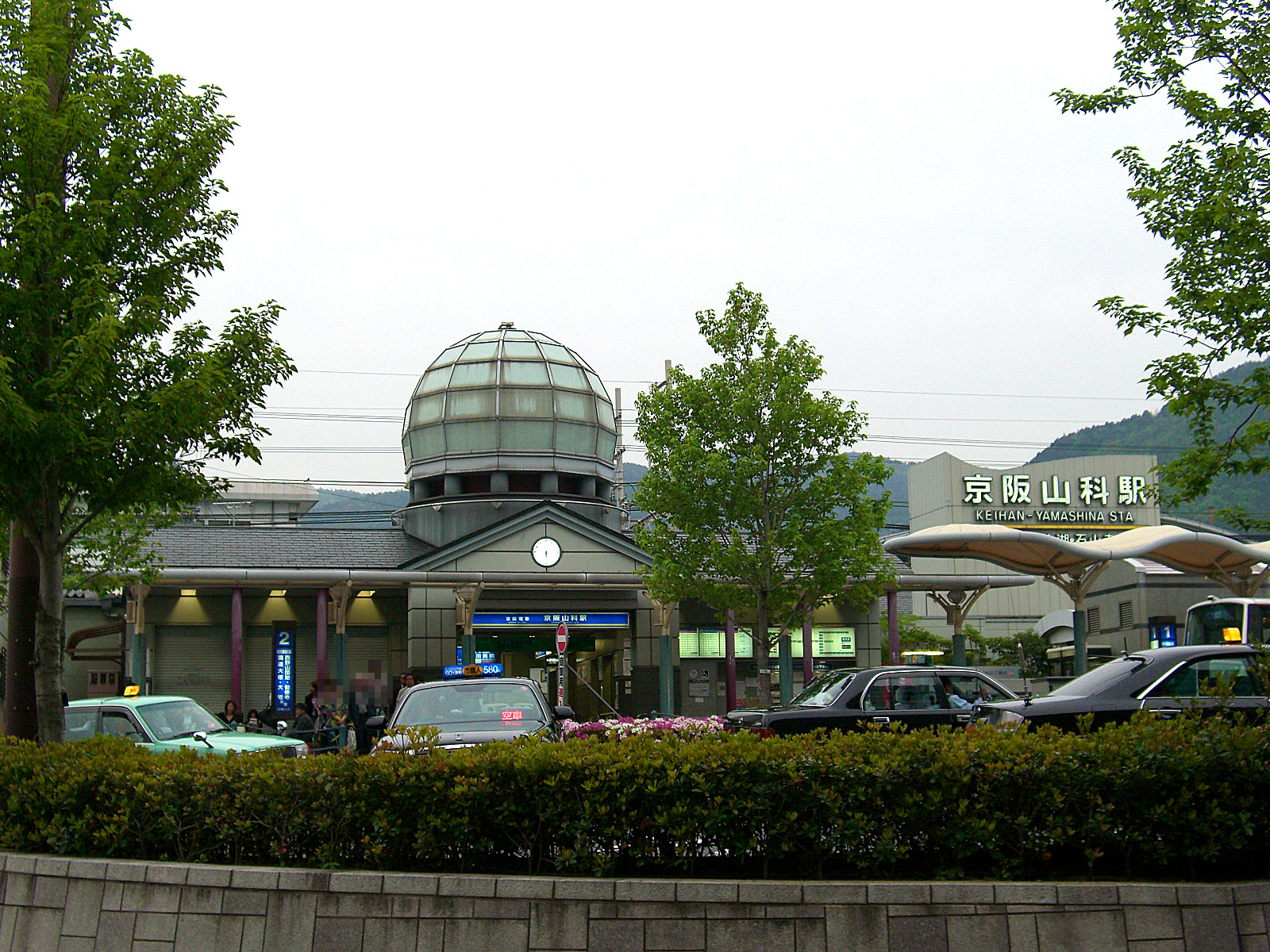 Keihan Electric Railway Keishin Line Keihan-Yamashina Station Building South Gate